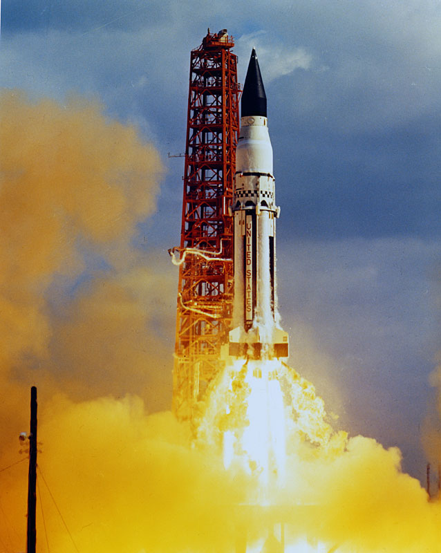 Launch of Saturn SA-5 at Complex 37, Pad B